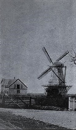 Sottrup Brugs og Dixens Mølle, Øster Sottrup, Denmark